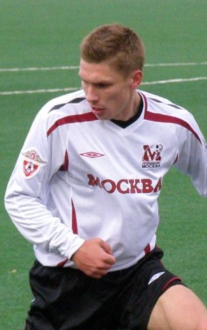 Kirill Nababkin in action for FC Moscow